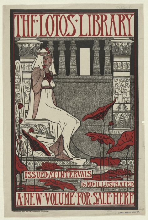 Lithograph; with text: "THE LOTOS LIBRARY ISSUED AT INTERVALS/ 16 MO ILLUSTRATED/ A NEW VOLUME FOR SALE HERE"